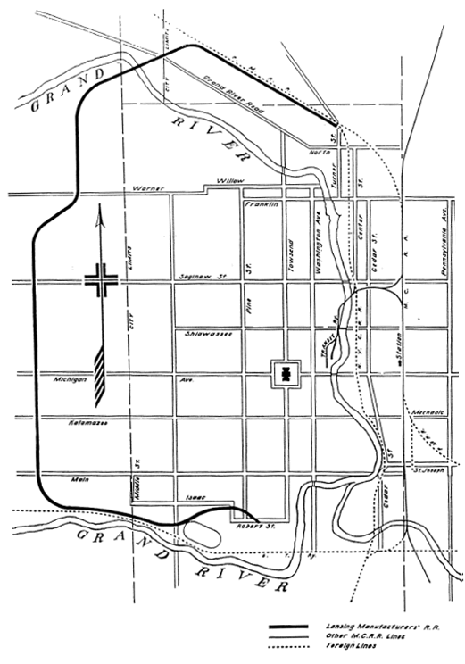 Route map of the Lansing Manufacturers Railroad, incorporated in 1904 and merged with Penndel (a Penn Central holding company) in 1969.